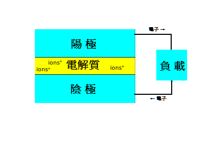 chinese version of File:Fuel Cell Block Diagram.svg